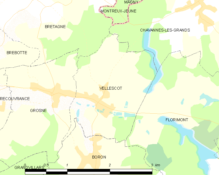 Map of French municipality Vellescot